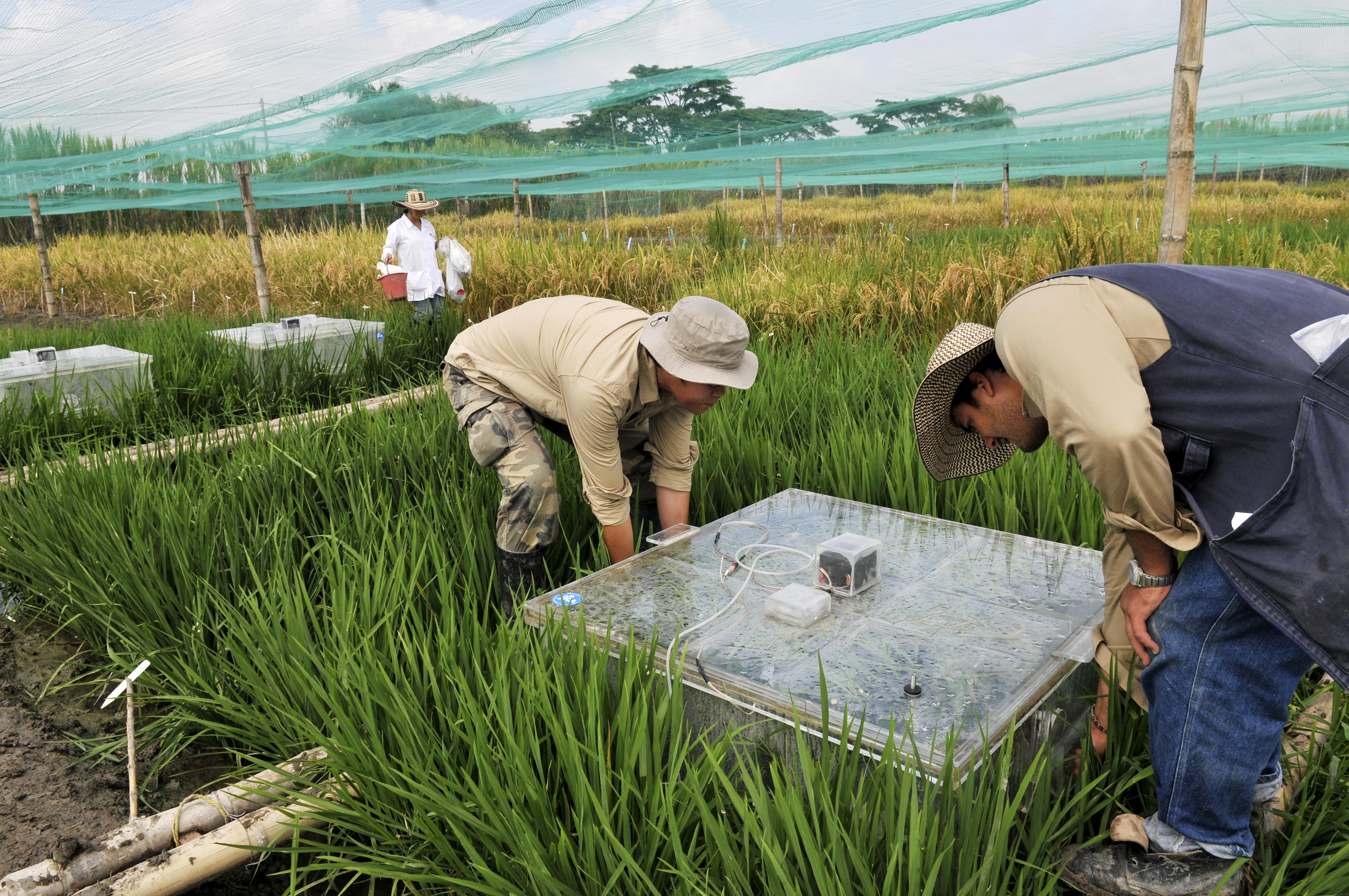 Pic by Neil Palmer (CIAT). Ongoing work at CIAT's headquarters in Colombia, to measure the greenhouse gas emissions of rice production. The project is funded by the Japanese International Cooperation Agency (JICA).